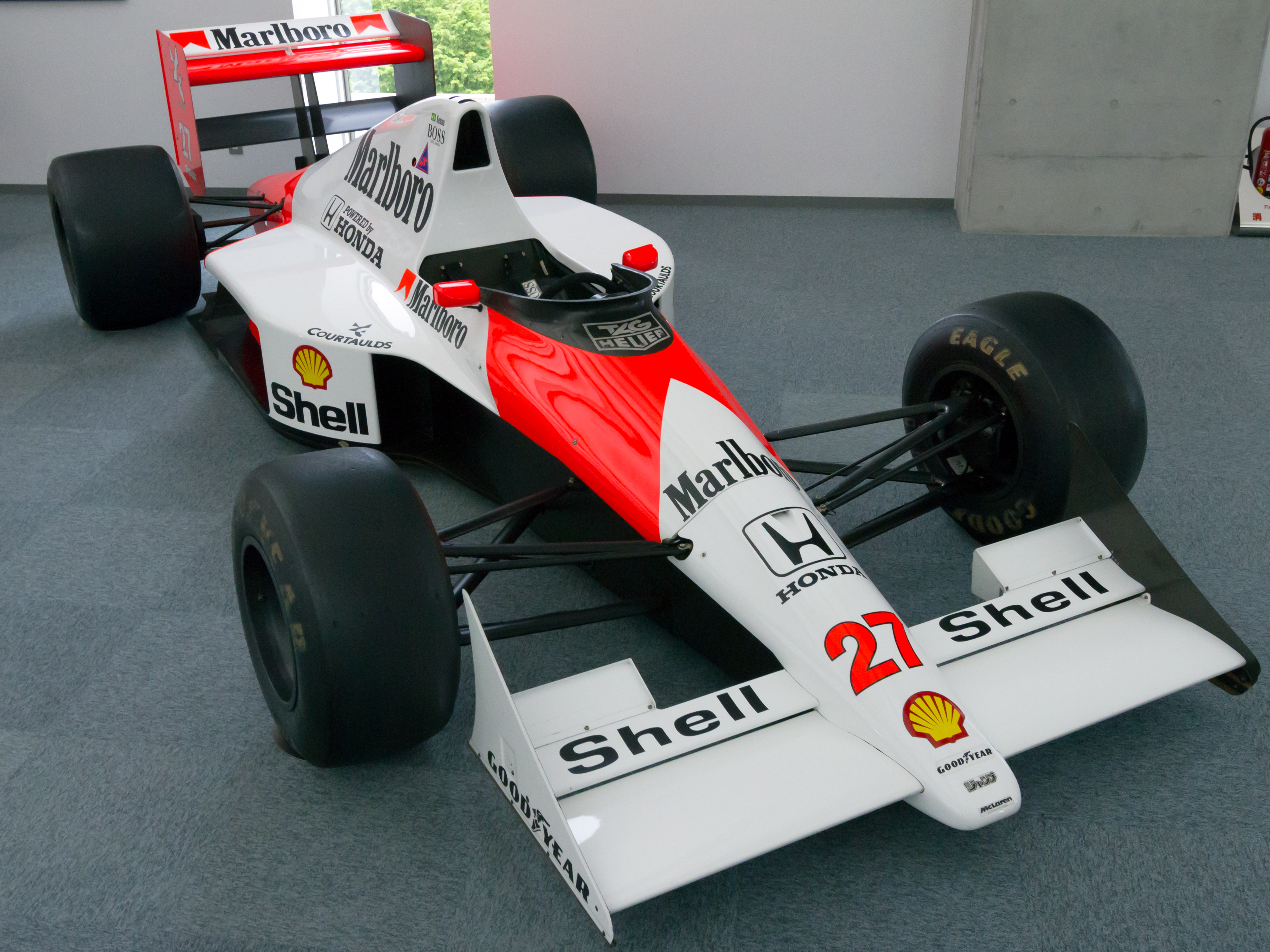 1990 McLaren MP4/5B of Ayrton Senna